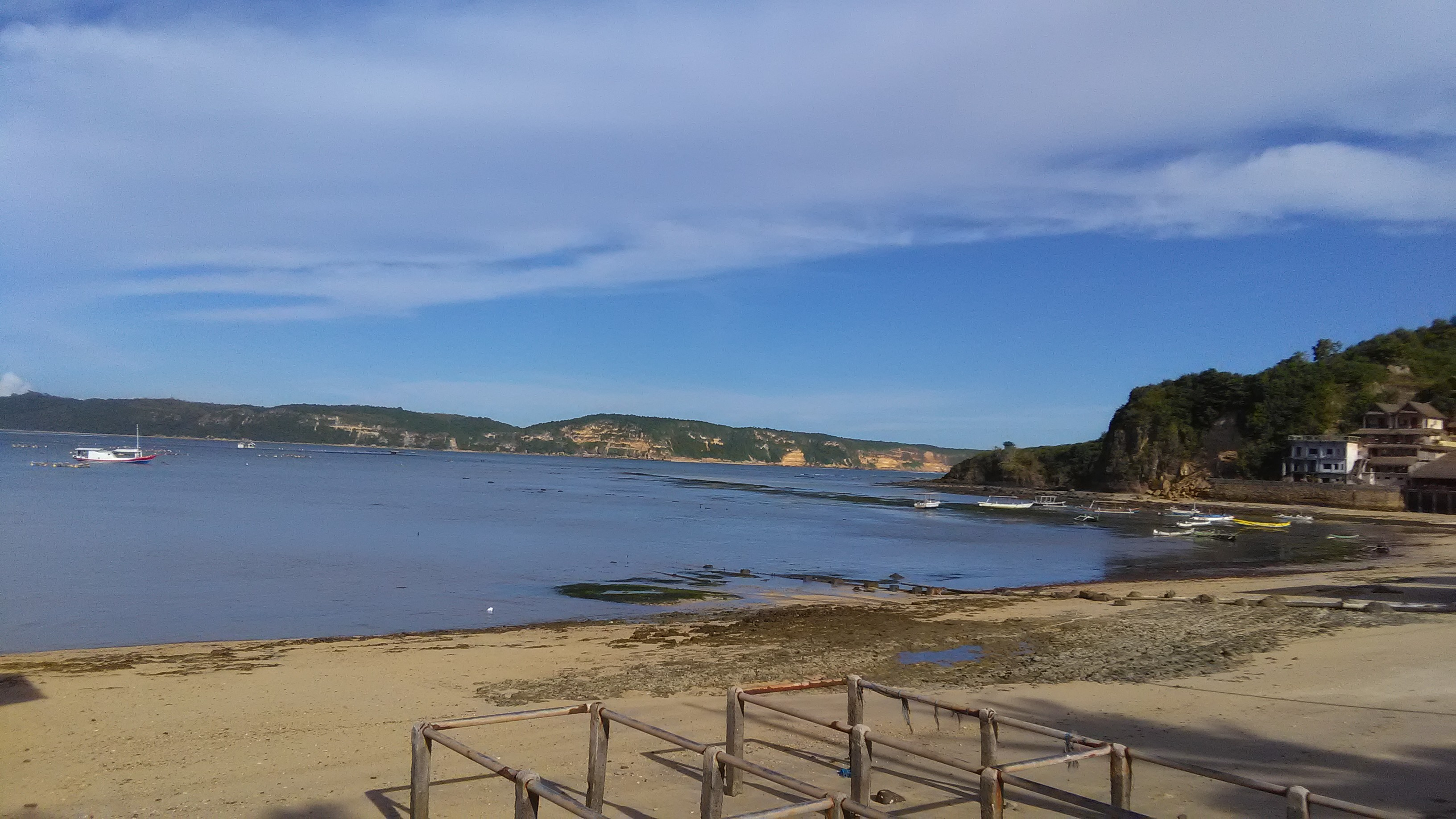 Gerupuk Beach